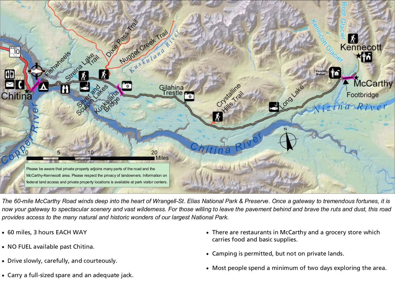 McCarthy Road map from park newspaper, zooming in on this most-visited part of the park that leads to McCarthy and Kennecott south of the Wrangell Mountains. Expect 3 hours each way.